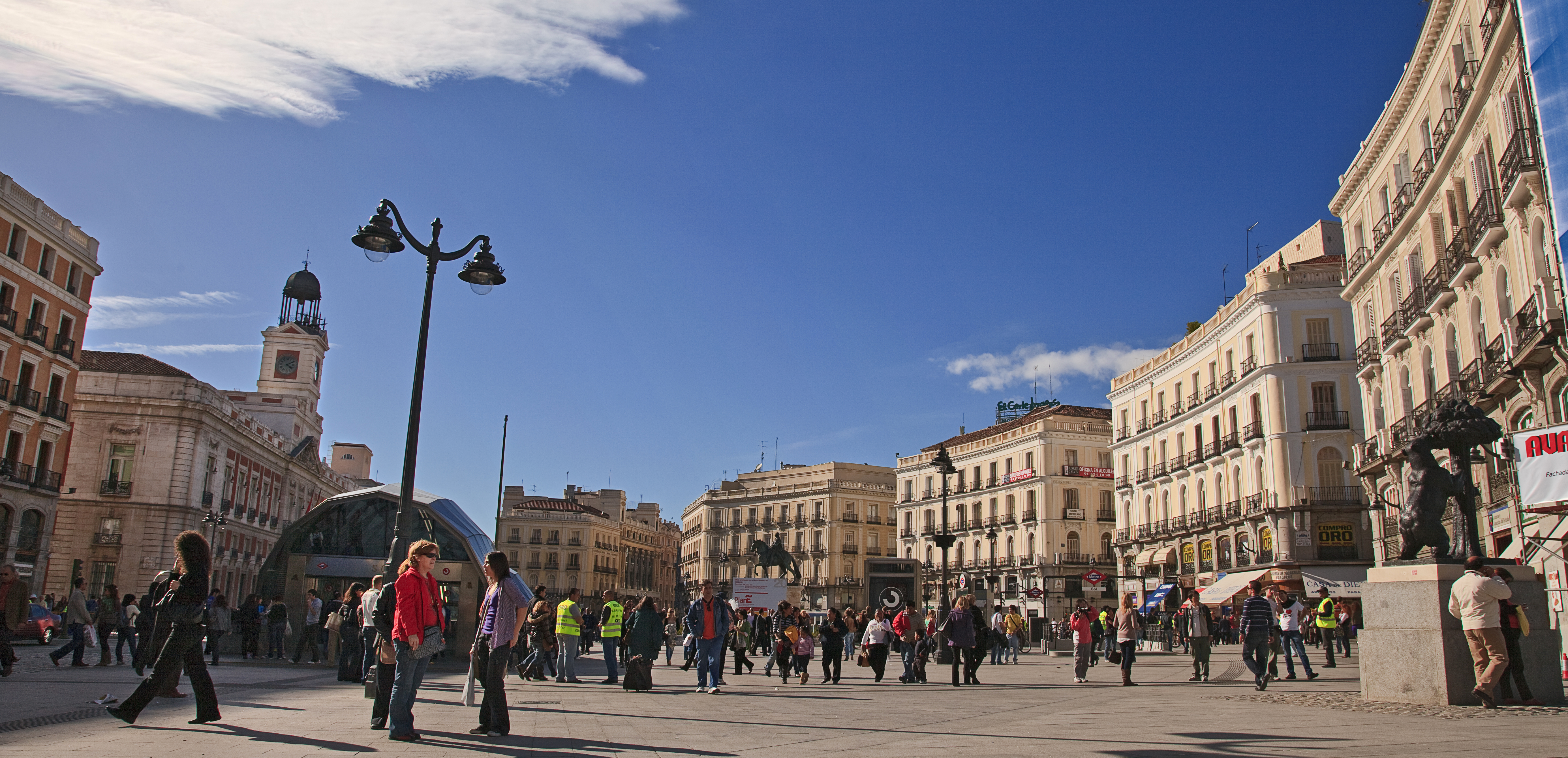 Puerta del Sol (square) in Madrid (Spain).